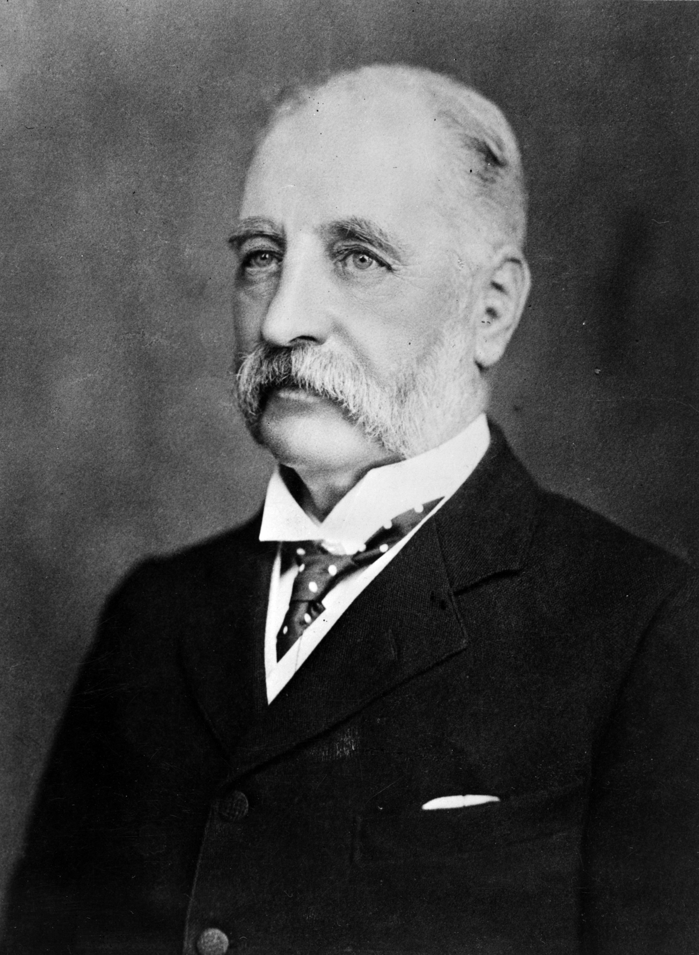 James Hector, scottish born medical doctor (M.D.), geologist, explorer, head of New Zealand Institute, Geological Survey of New Zealand, and Chancellor of the University of New Zealand